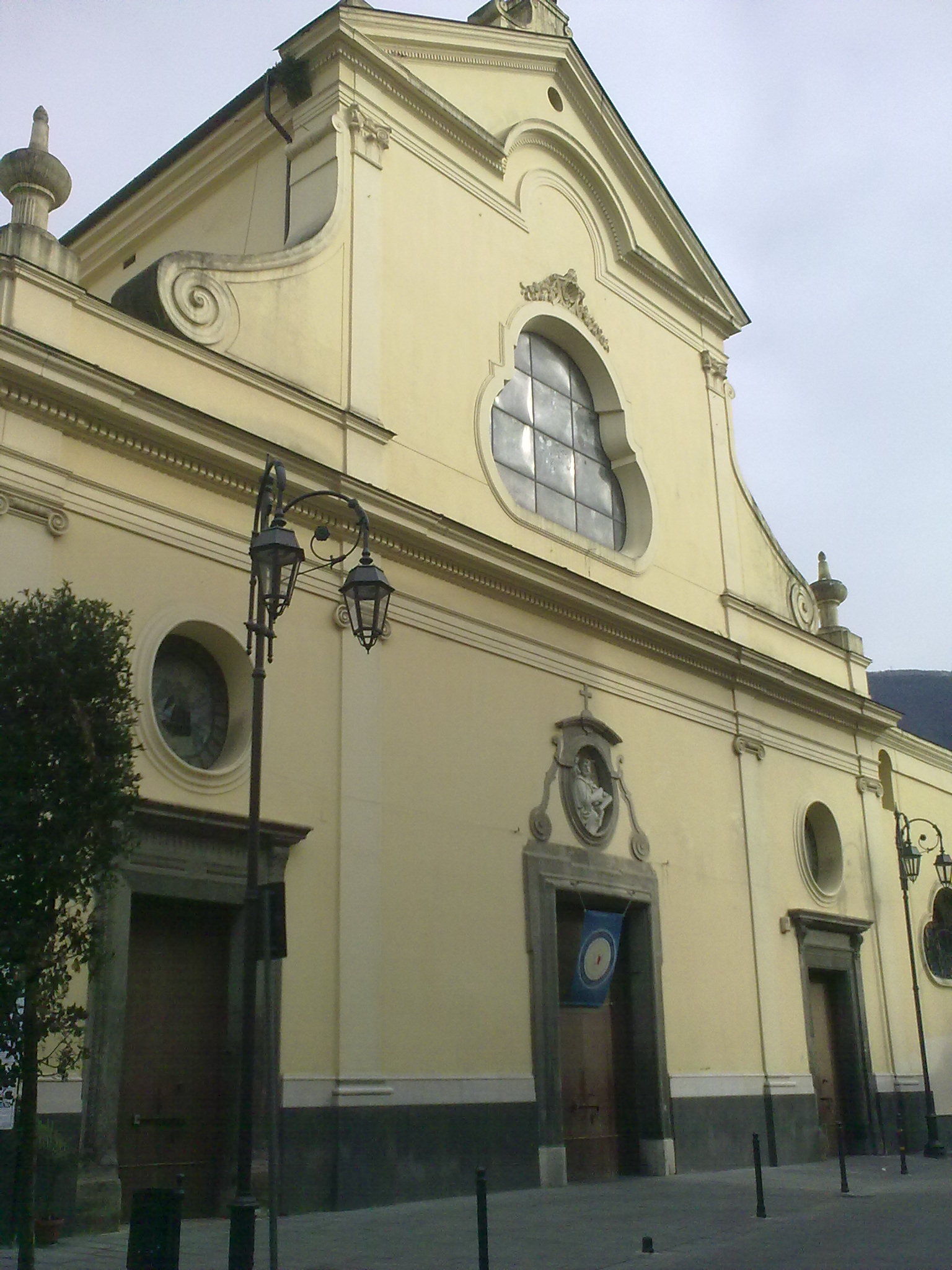 Nocera Inferiore, Church of Matthew the Evangelist